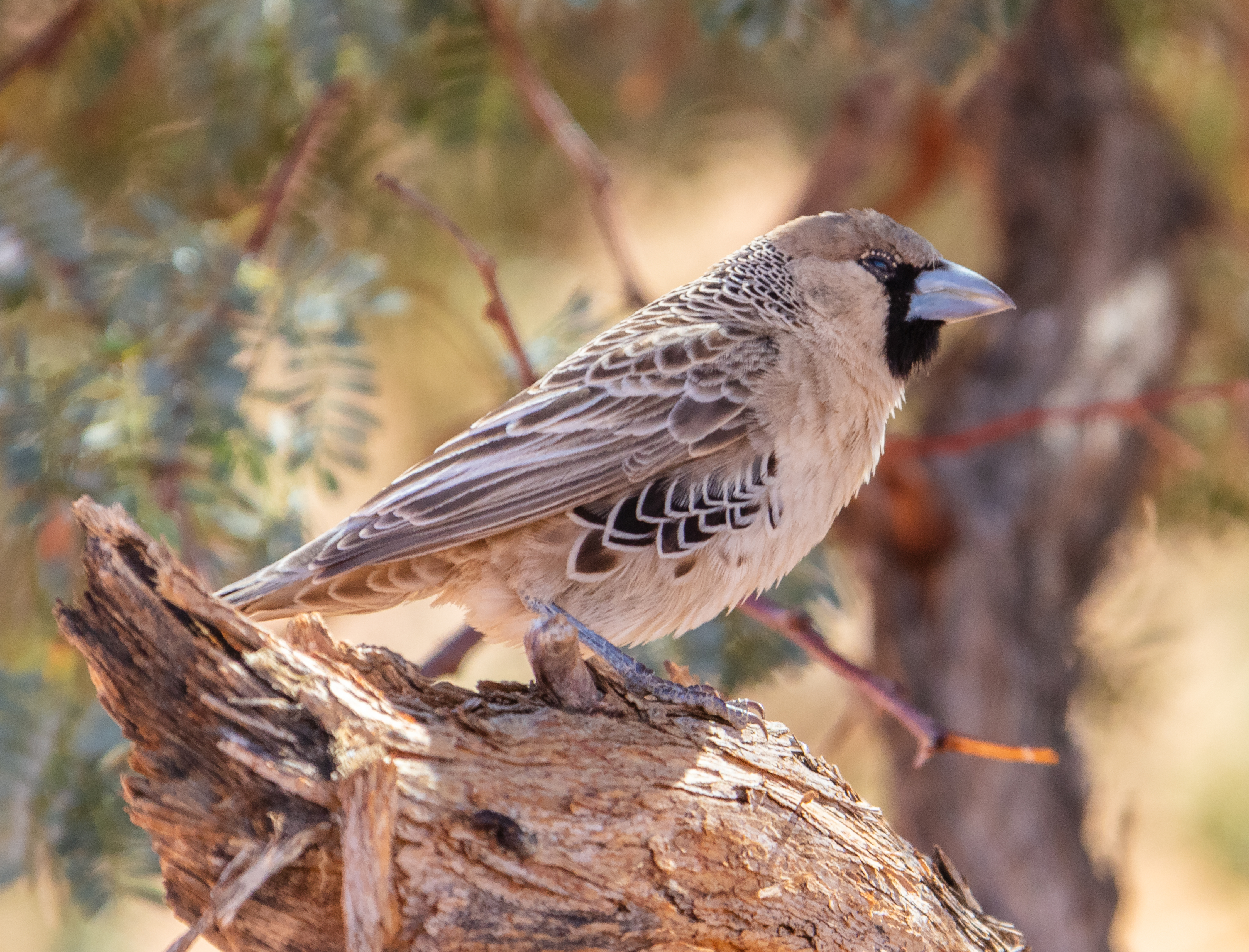 Sociable weaver (Philetairus socius), Sossusvlei, Namibia